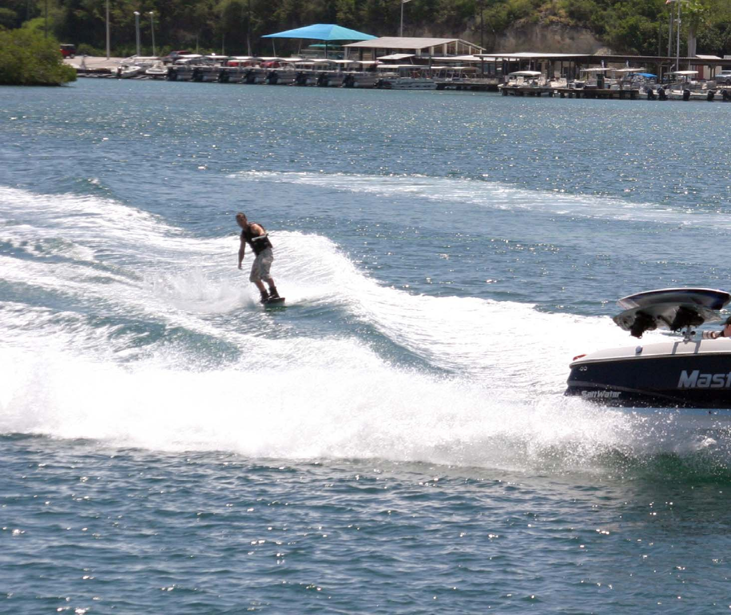 MasterCraft Pro Wakeboarding